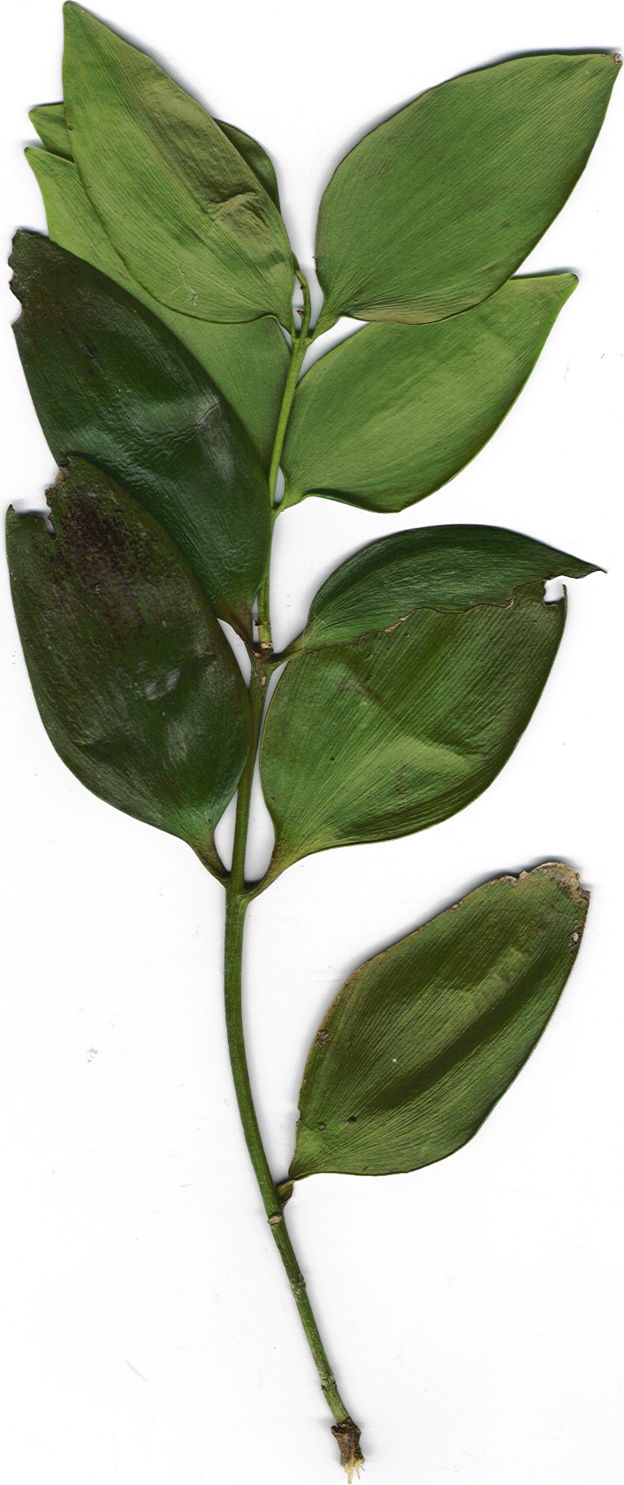 Agathis robusta (branch). Location: Maui, Makawao Forest Reserve